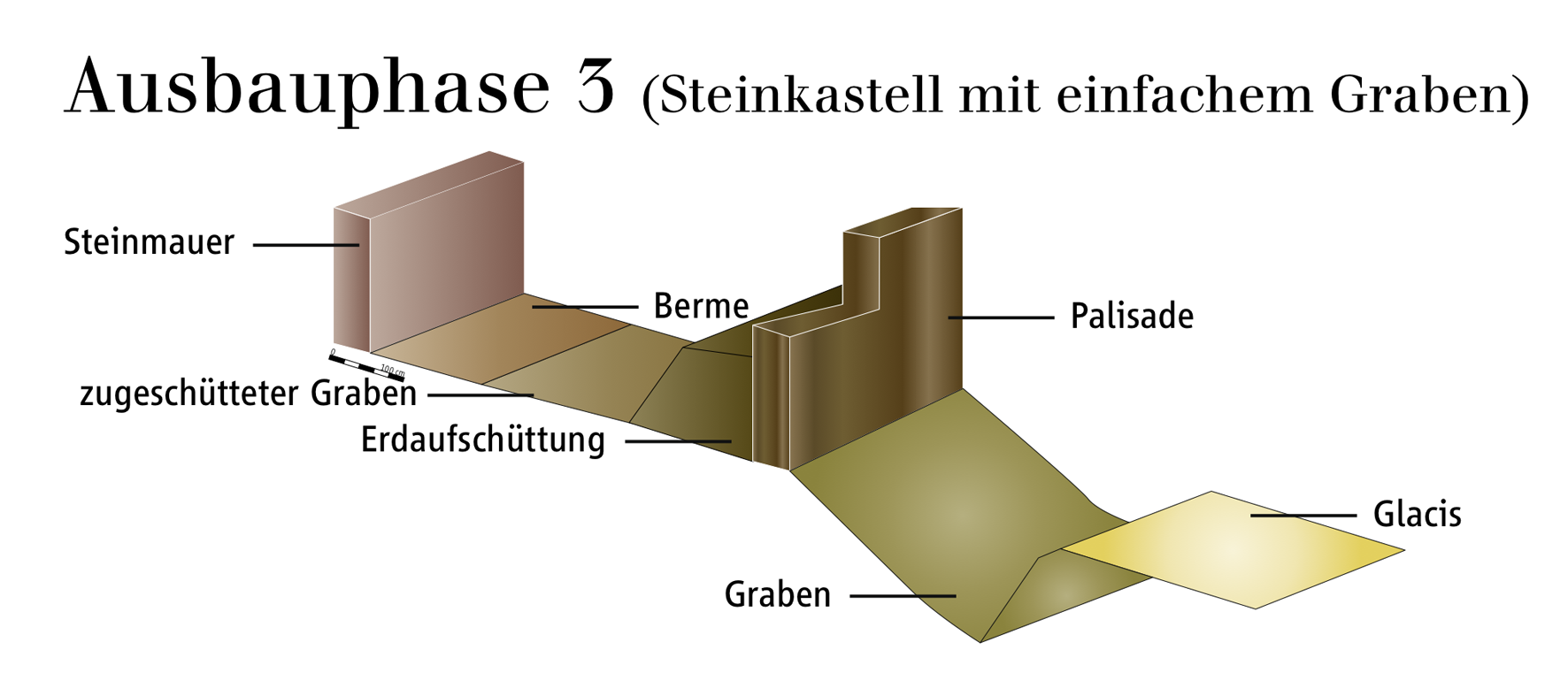 Fortifacation of fort comagena: stage of extension